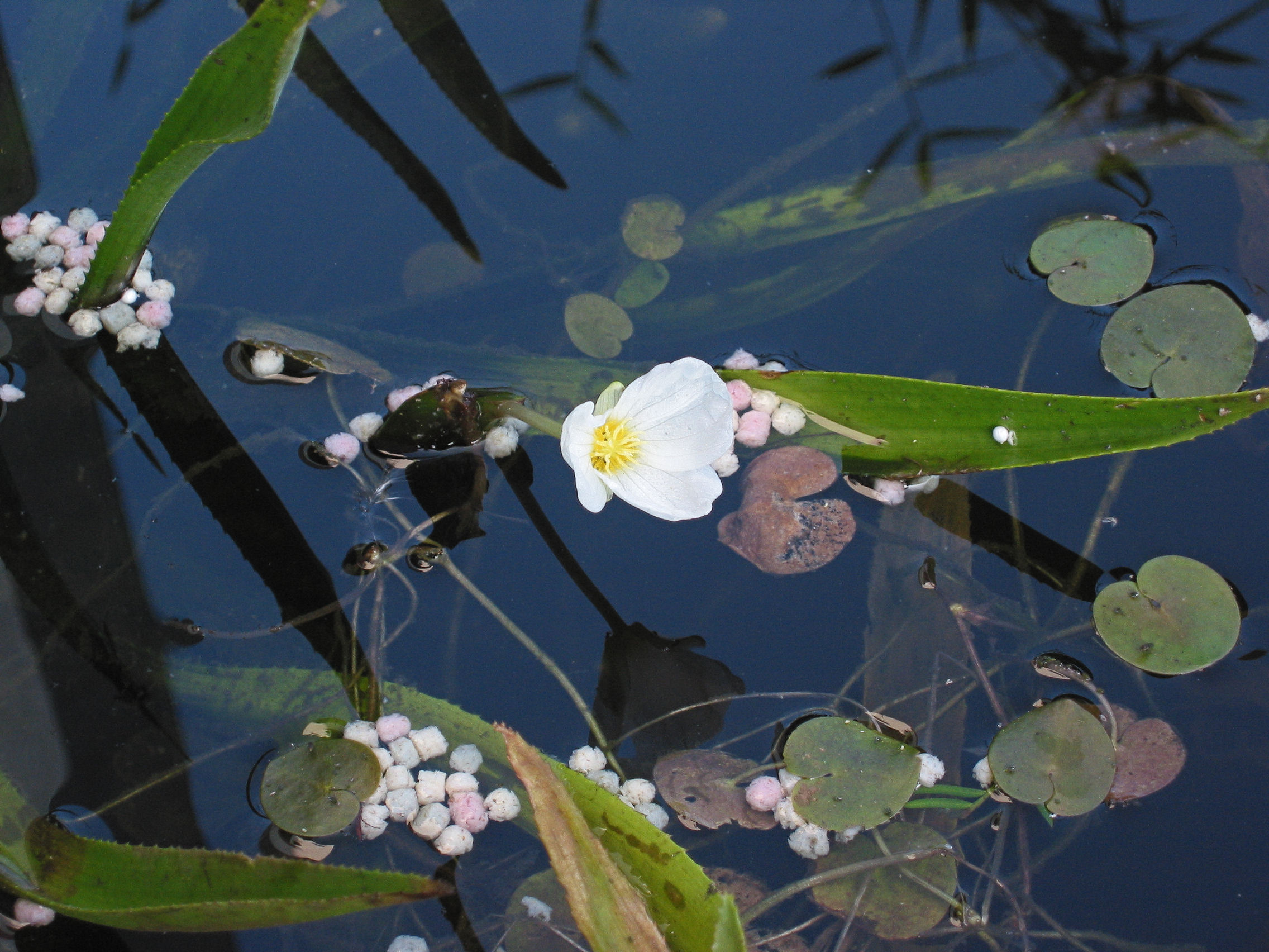 Stratiotes aloides flower